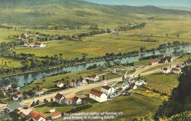 The Connecticut River valley at Fairlee, Vermont and Orford, New Hampshire, looking south. This view is from the palisades on Morey Mountain, with the Fairlee Community Church in foreground, and Orford across river.